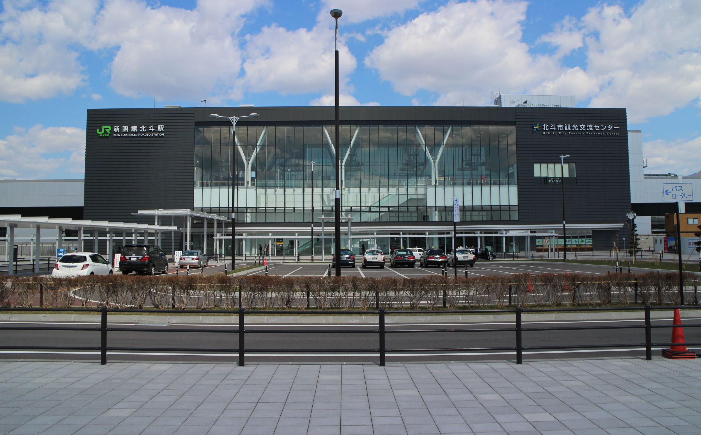 Shin-Hakodate-Hokuto Station in Hokkaido, Japan